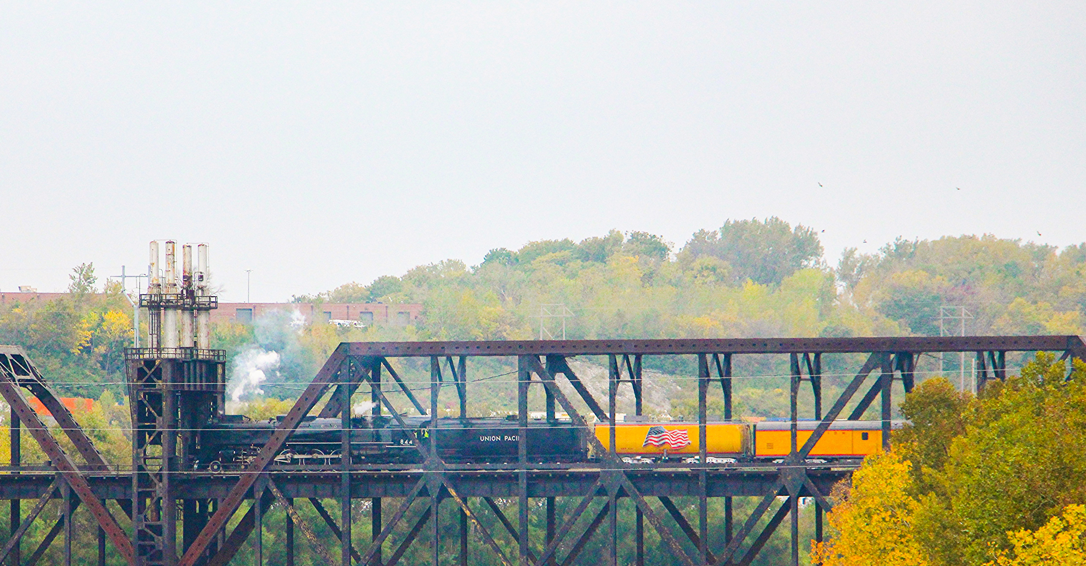 Union Pacific 844(Alco 4-8-4) seen here from the Kansas Avenue Bridge over the Kansas River on the flyover to Union Station leaving Armourdale(Kansas City), Kansas on it's way to Memphis, Tennessee to Celebrate the Opening of Big River Crossing. The trek is the first multi-state venture since the locomotive's three-year restoration. Photo Taken: 10-15-16 at 3:16 pm Picture ID# 3311